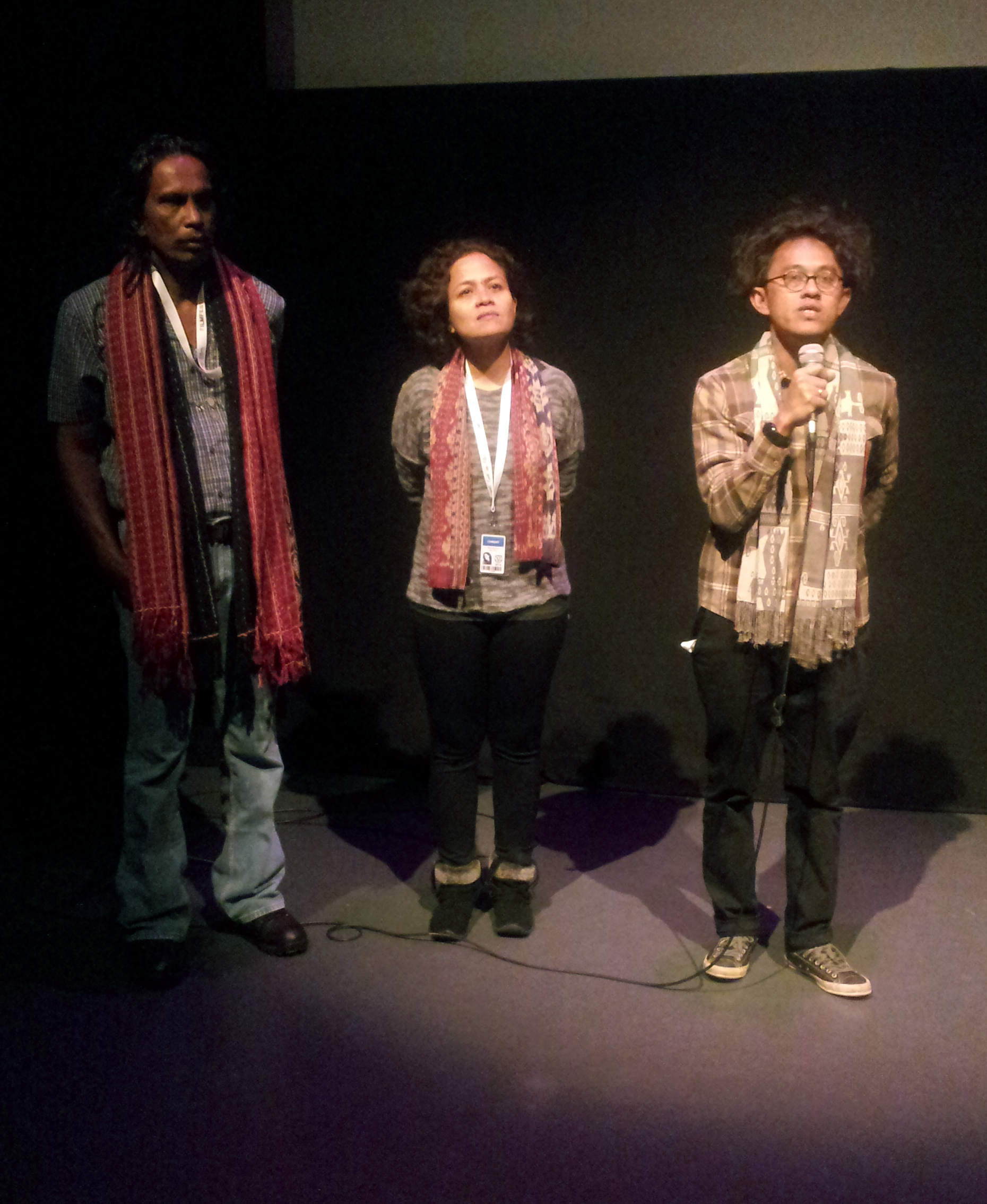 Petrus Beyleto, Mira Lesmana and Riri Riza at the screening of "Atambua 39° Celsius" at IFFR 2013